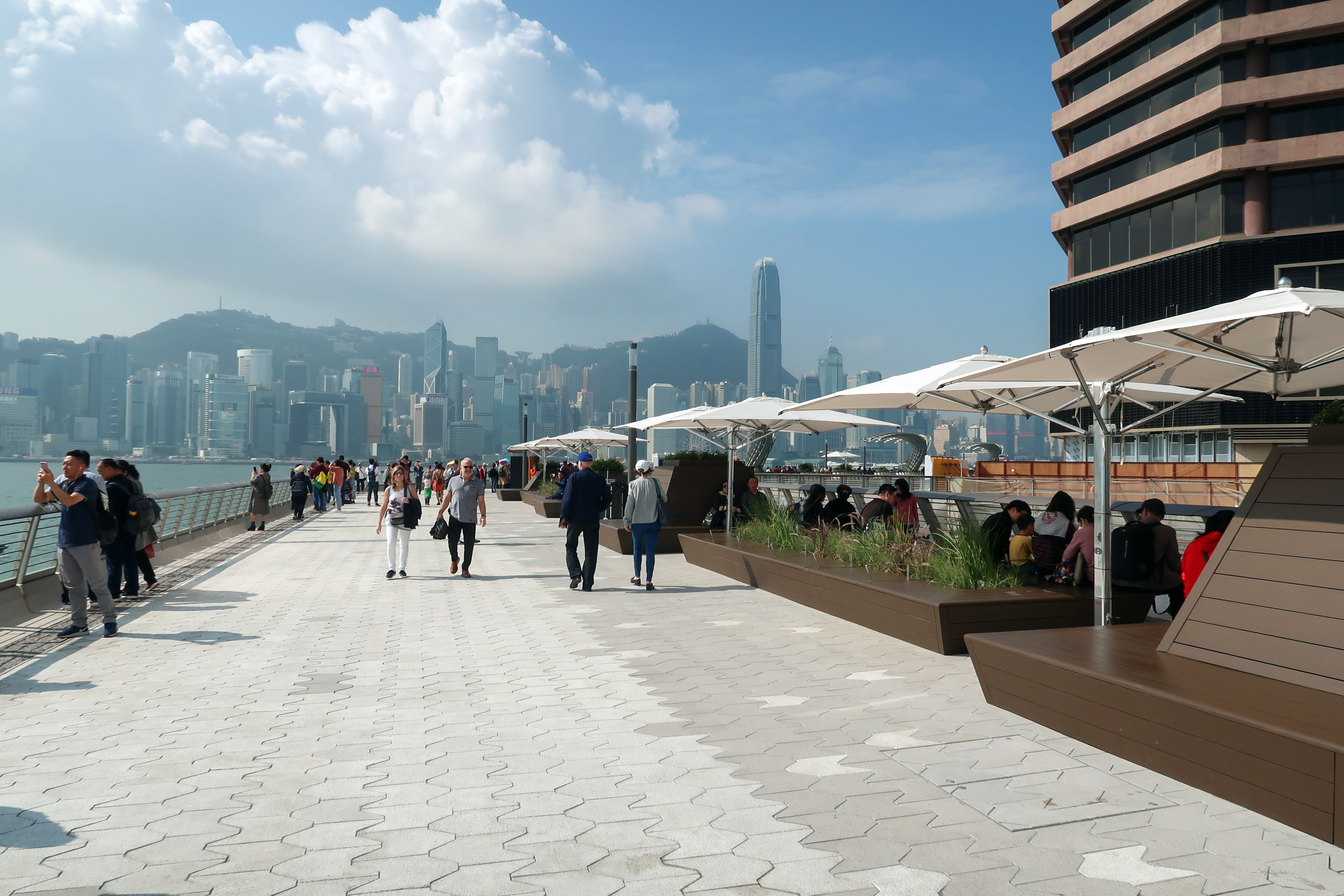 Avenue of Stars